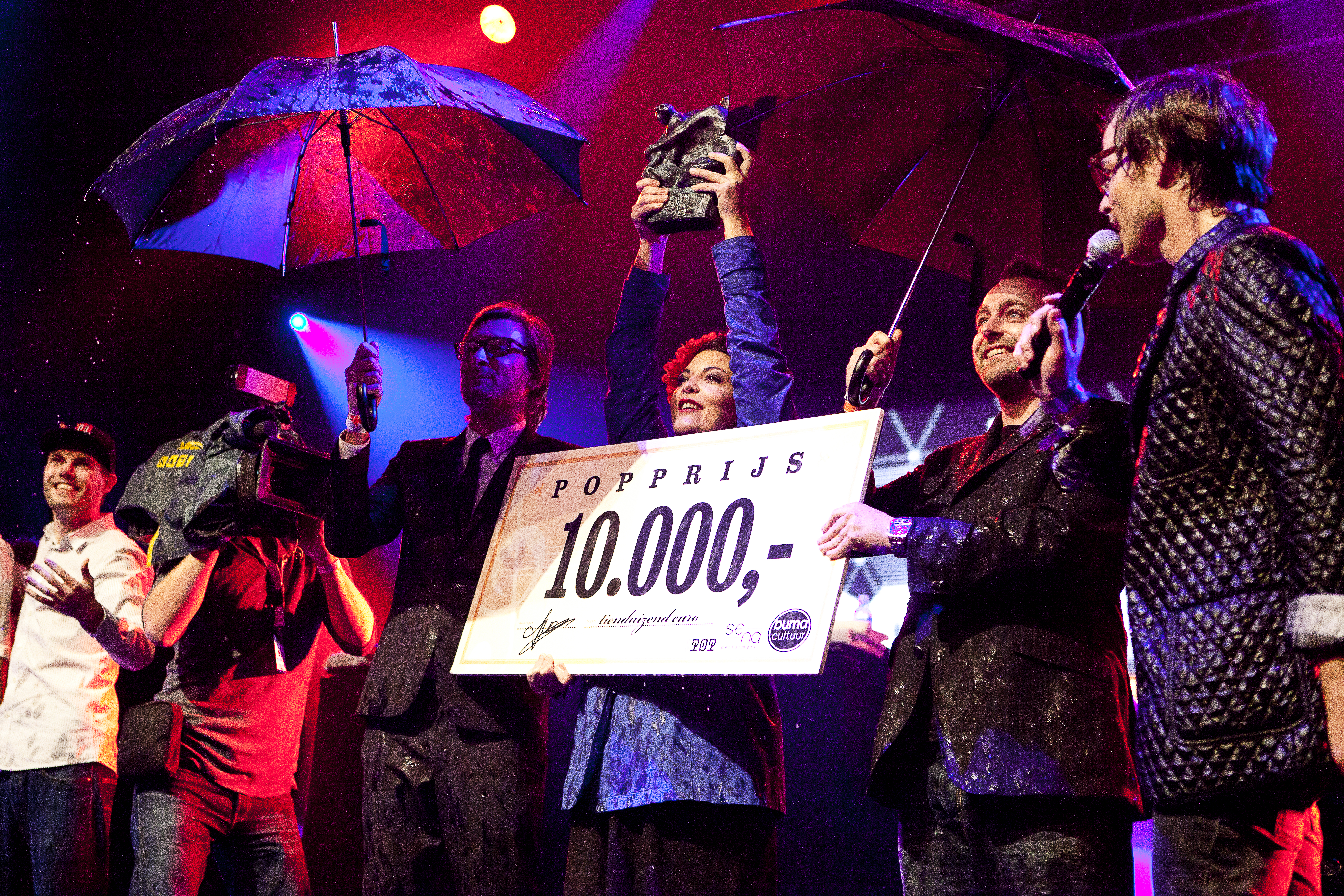 Noorderslag 2011- 7504 Caro Emerald - (Ben Houdijk)